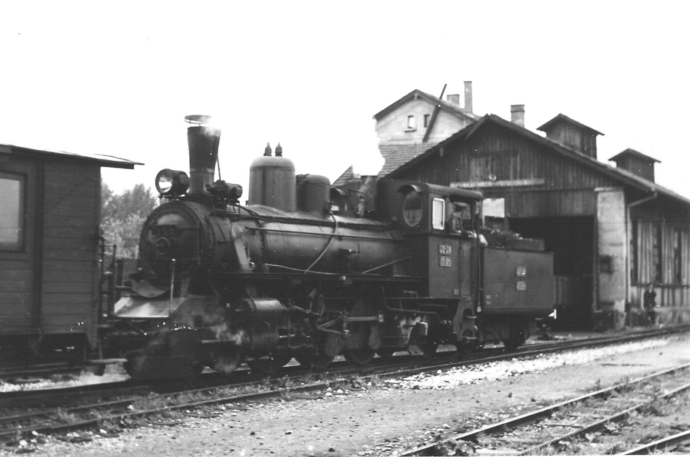 Narrow gauge express train locomotive 73-015 in Prijedor, Bosnia and Herzegovina